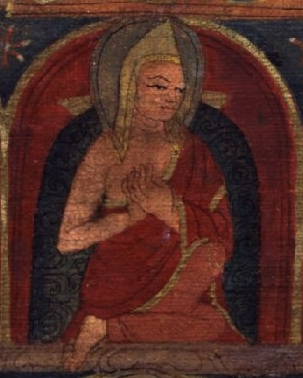 Dromton (1004 -1064), disciple of Atisha Dipankar and famous Tibetan Buddhist Scholar